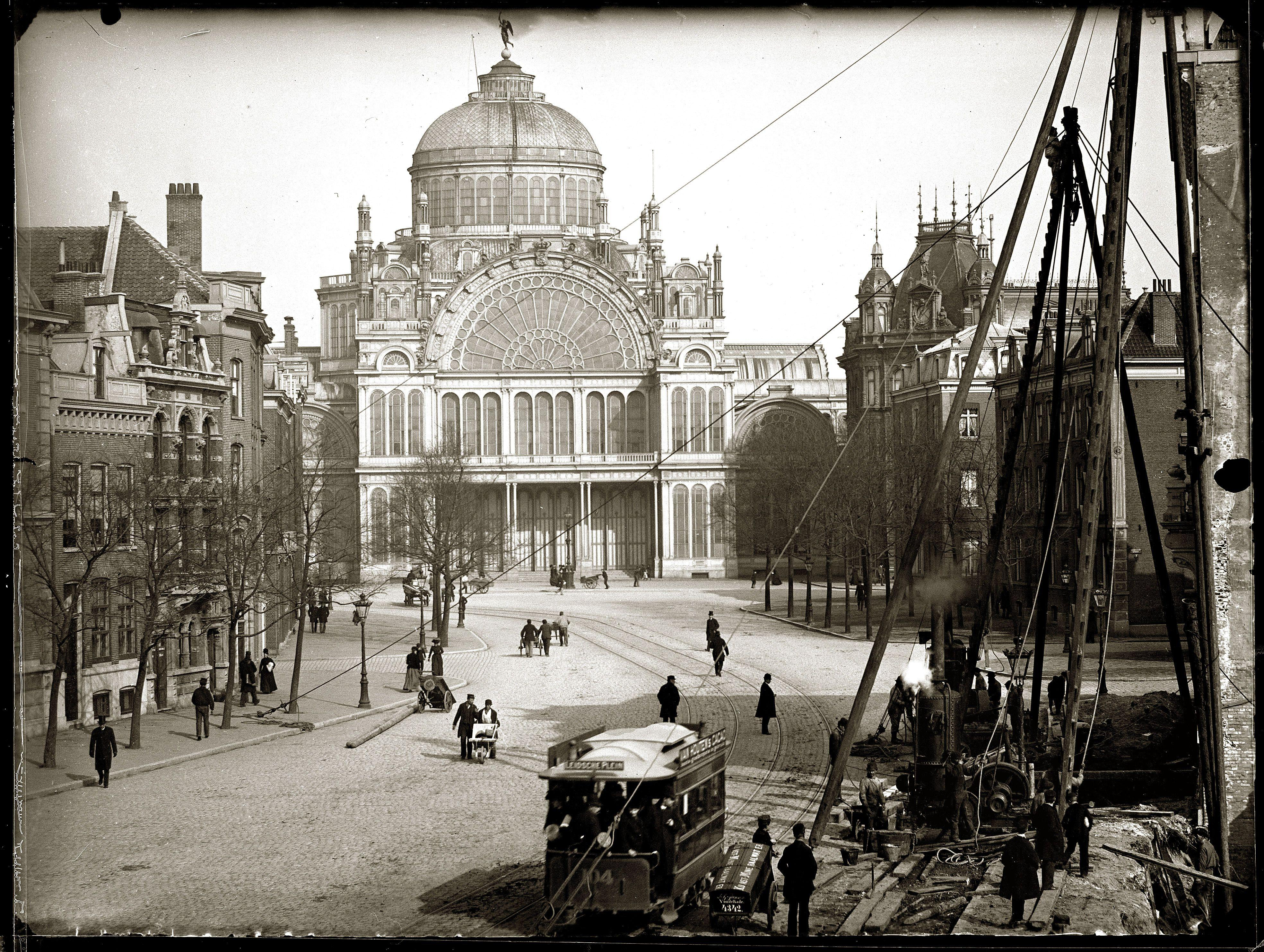 'Palace of the People' in Amsterdam. Photo dates back to about 1890 and is made by Jacob Olie who died in 1904. The photo can be found in de Amsterdam City Archive. The 'Palace of the People' was destroyed by a fire in the beginning of the 20th century.